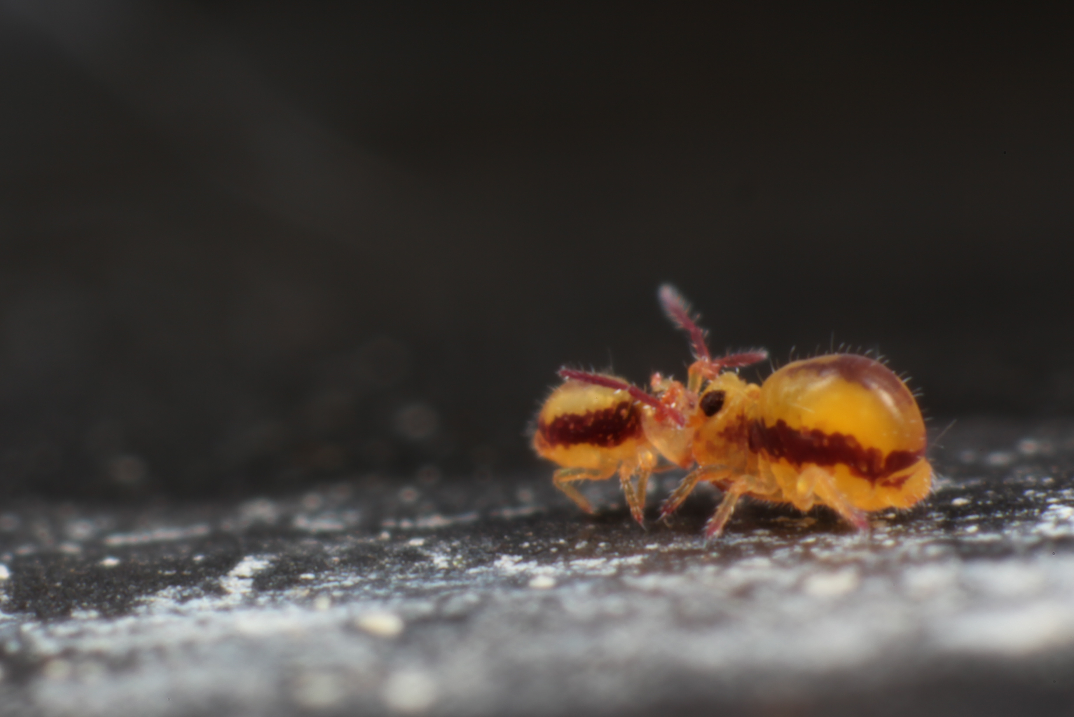 Sminthurides malmgreni courtship.